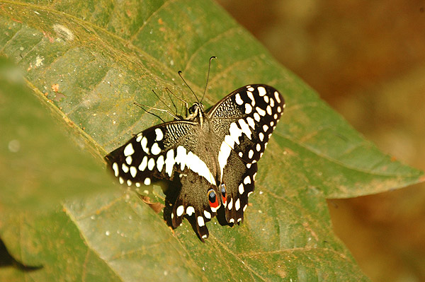 Citrus Swallowtail (Papilio demodocus) Photo taken at Royal Mile, Budongo W. Uganda